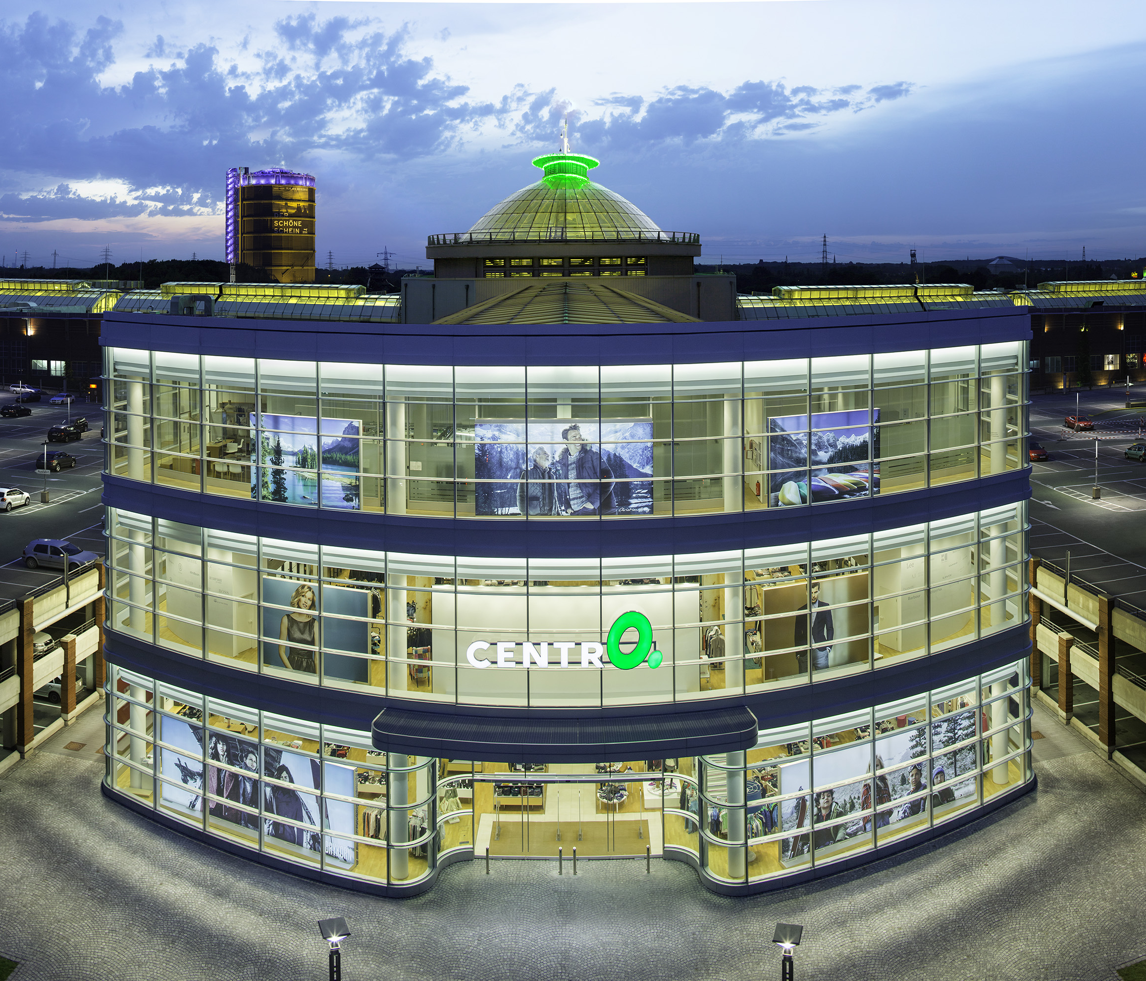 Centro in Oberhausen